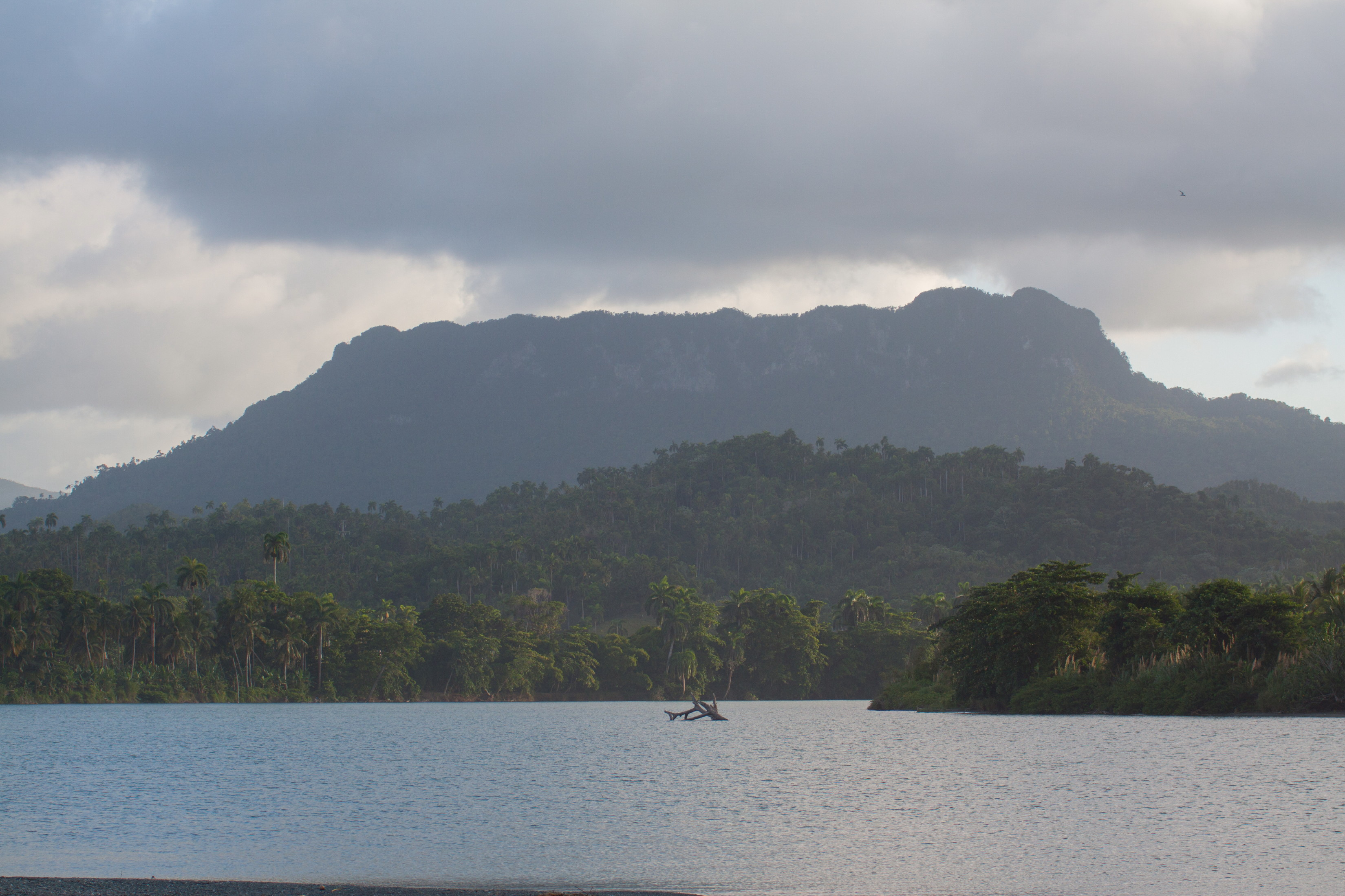 Estuary of Río Toa, Guantánamo province, Cuba